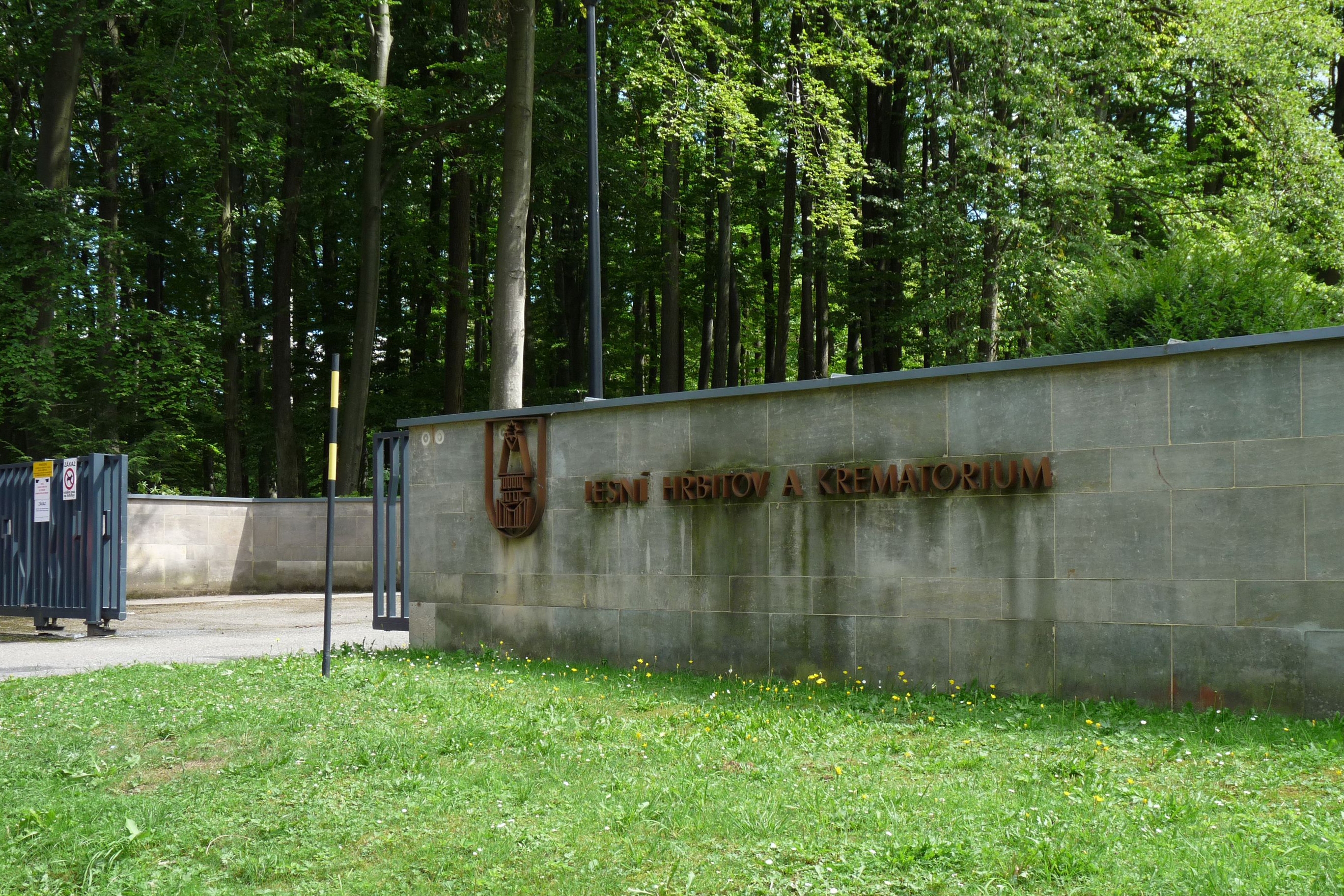 Woodland cemetery in the town of Zlín, Zlín Region, Czech Republic.